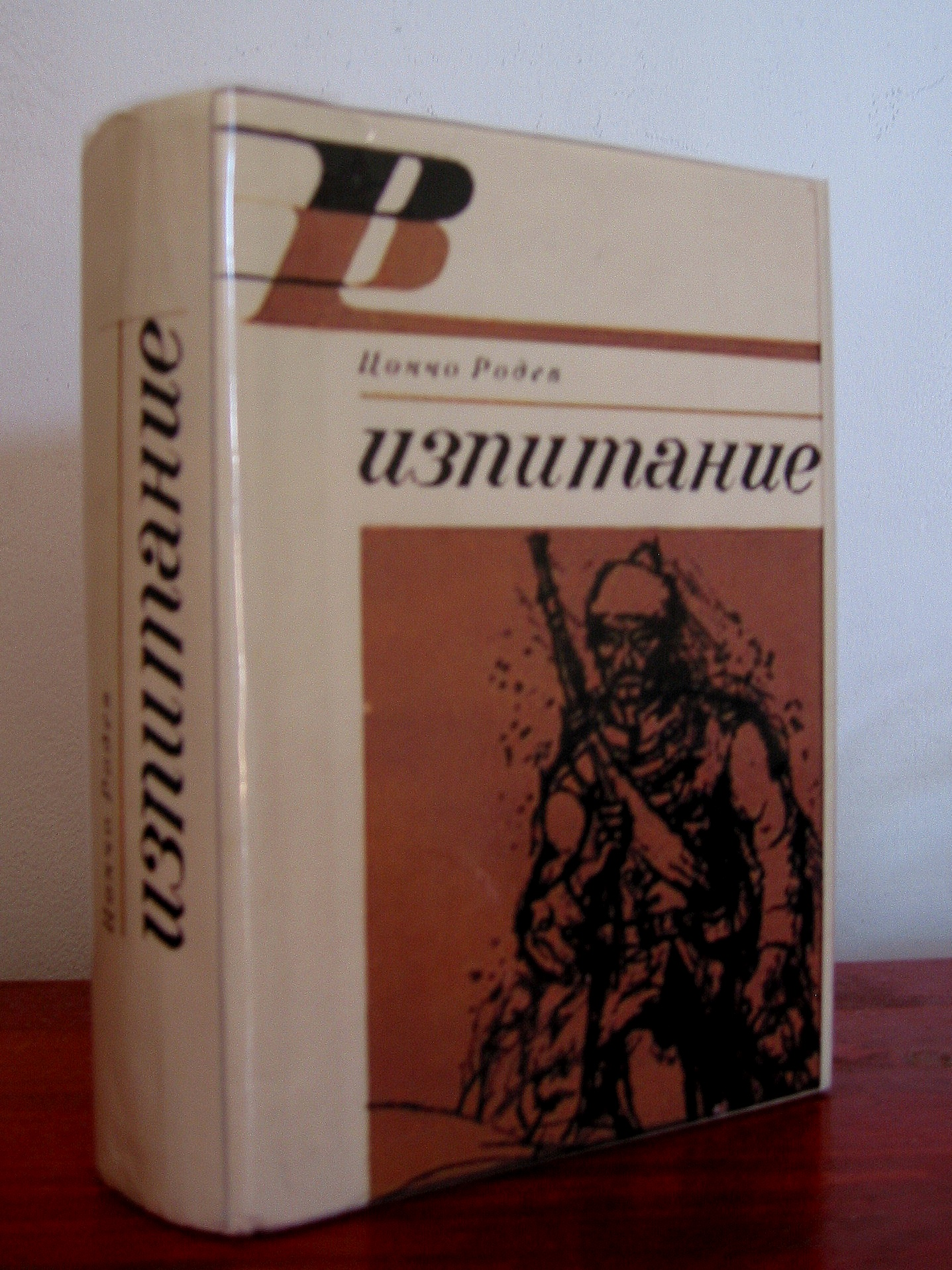 Cover of the book Изпитание by Цончо Родев